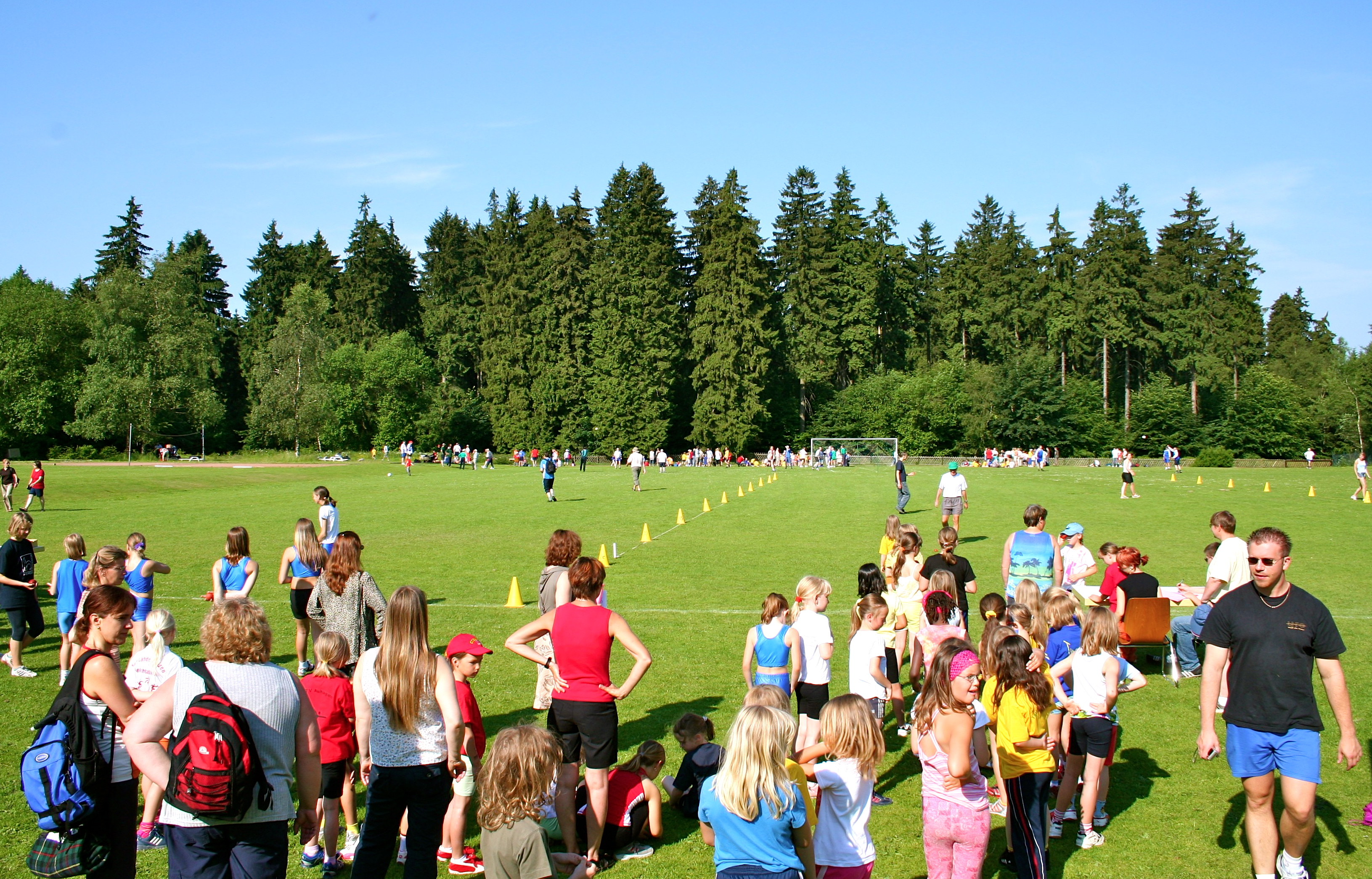 Athletics competition during Jahn Bergturnfest 2006 at Bückeberg, Lower Saxony, Germany